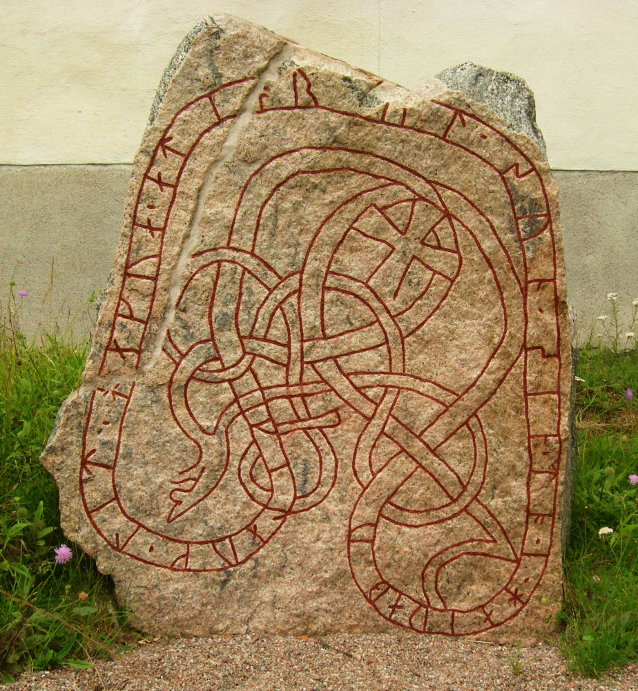 runic stone Upplands runinskrifter U1048